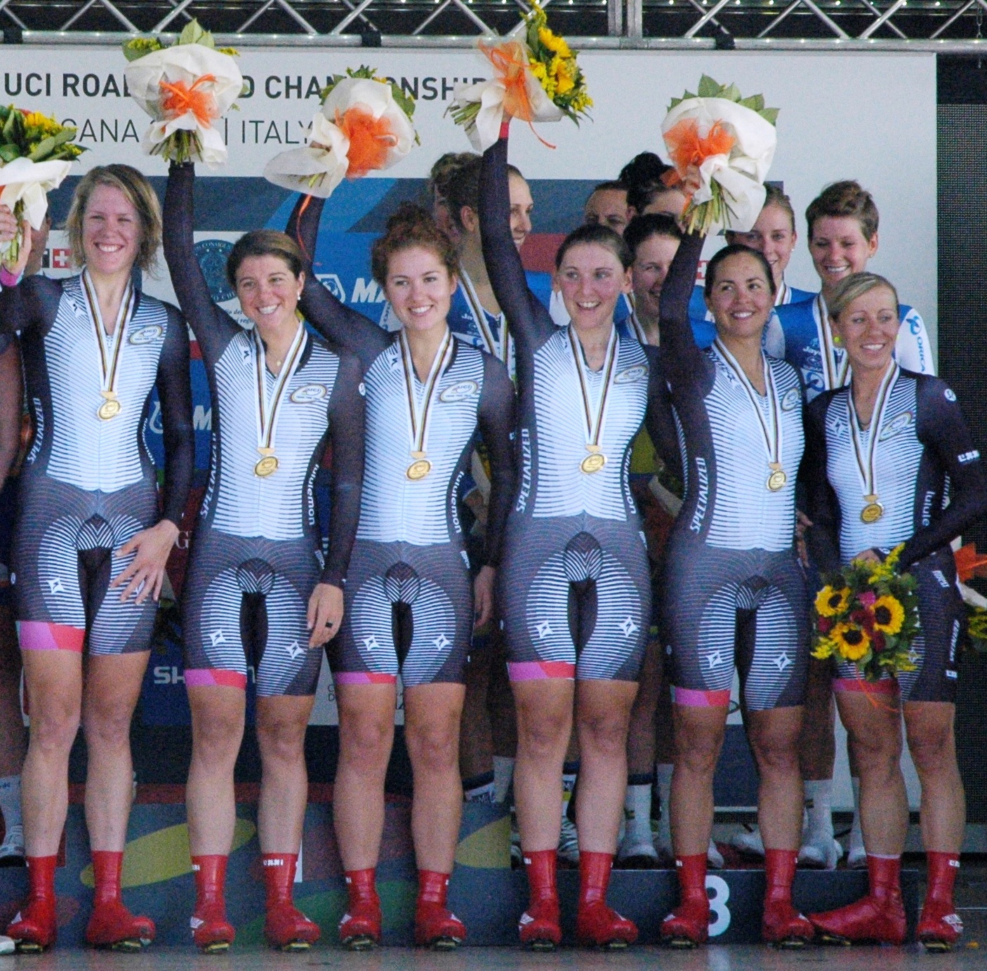 2013 UCI Road World Championships – Women's team time trial podium